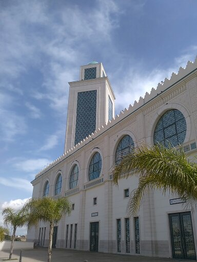 Ibn Badis Mosque Oran